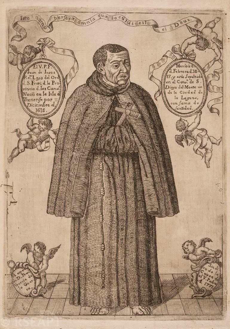 Engraving of the Venerable Fray Juan de Jesús attributed to Miguel Rodríguez Bermejo (1771).